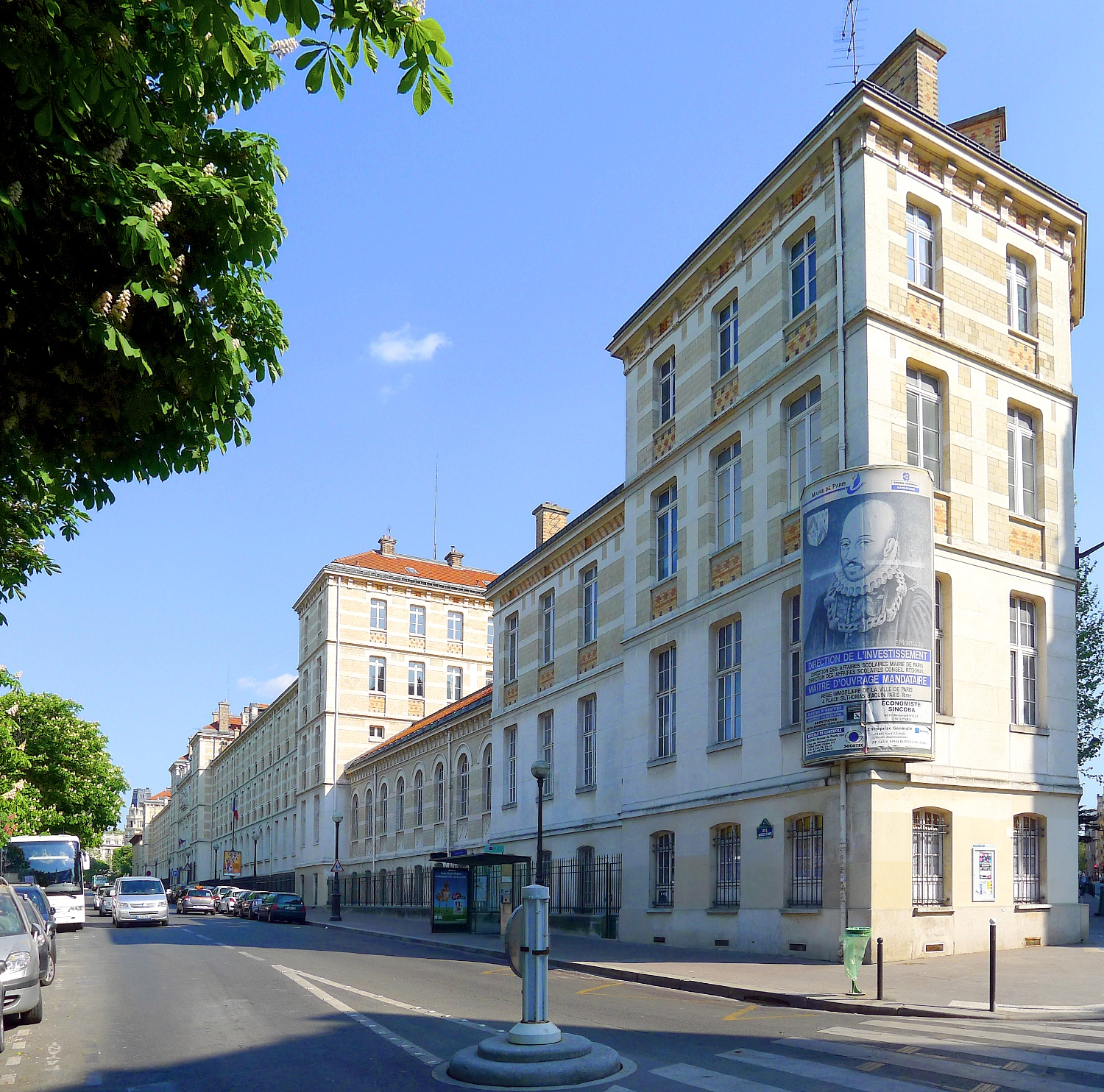 Auguste-Comte street - Paris